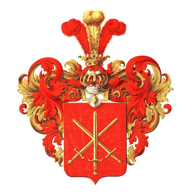 Coat of Arms of Suhonin family